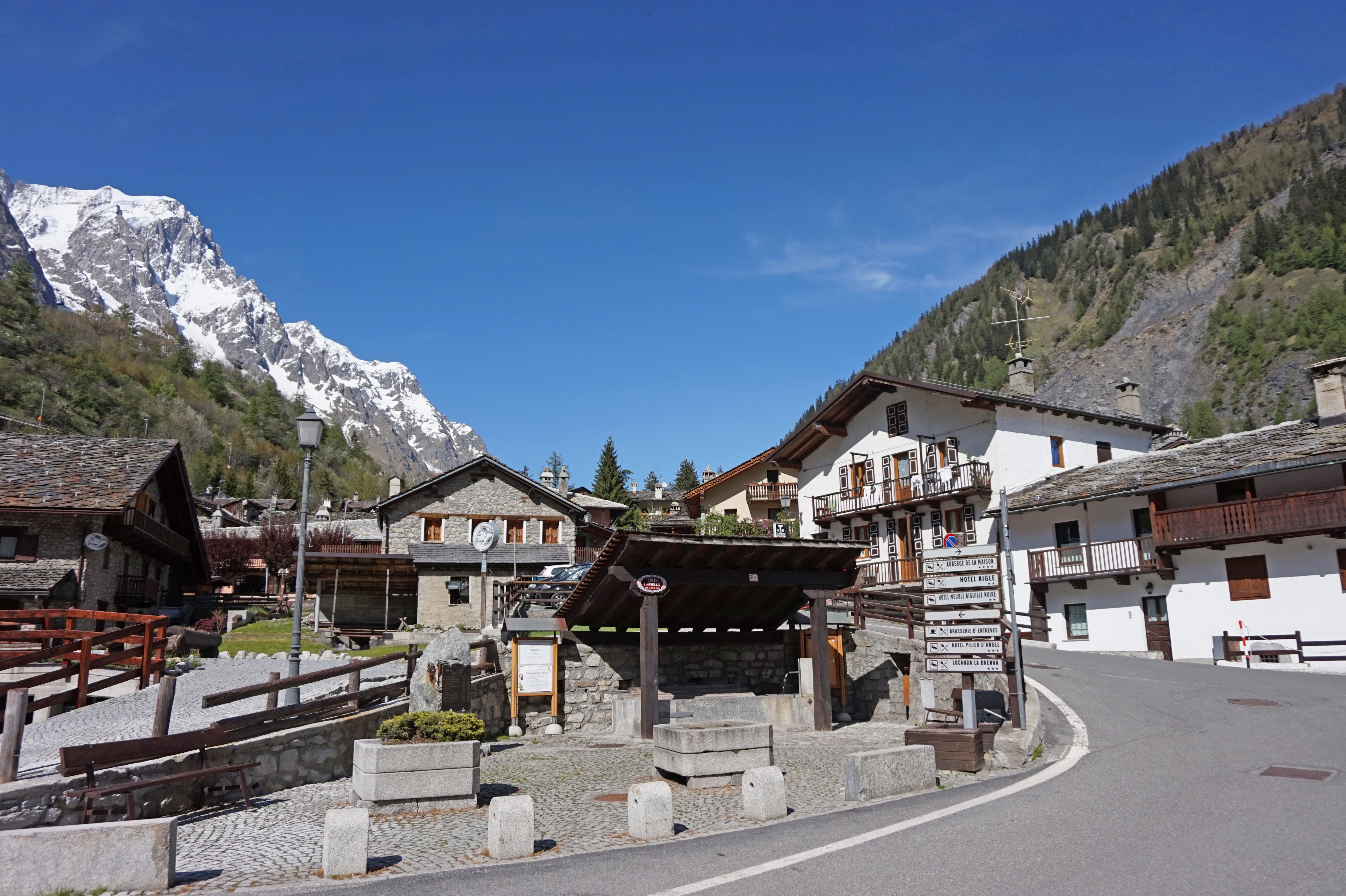 Entreves, Courmayeur in Italy.This photograph was taken with a Sony ILCE-5000